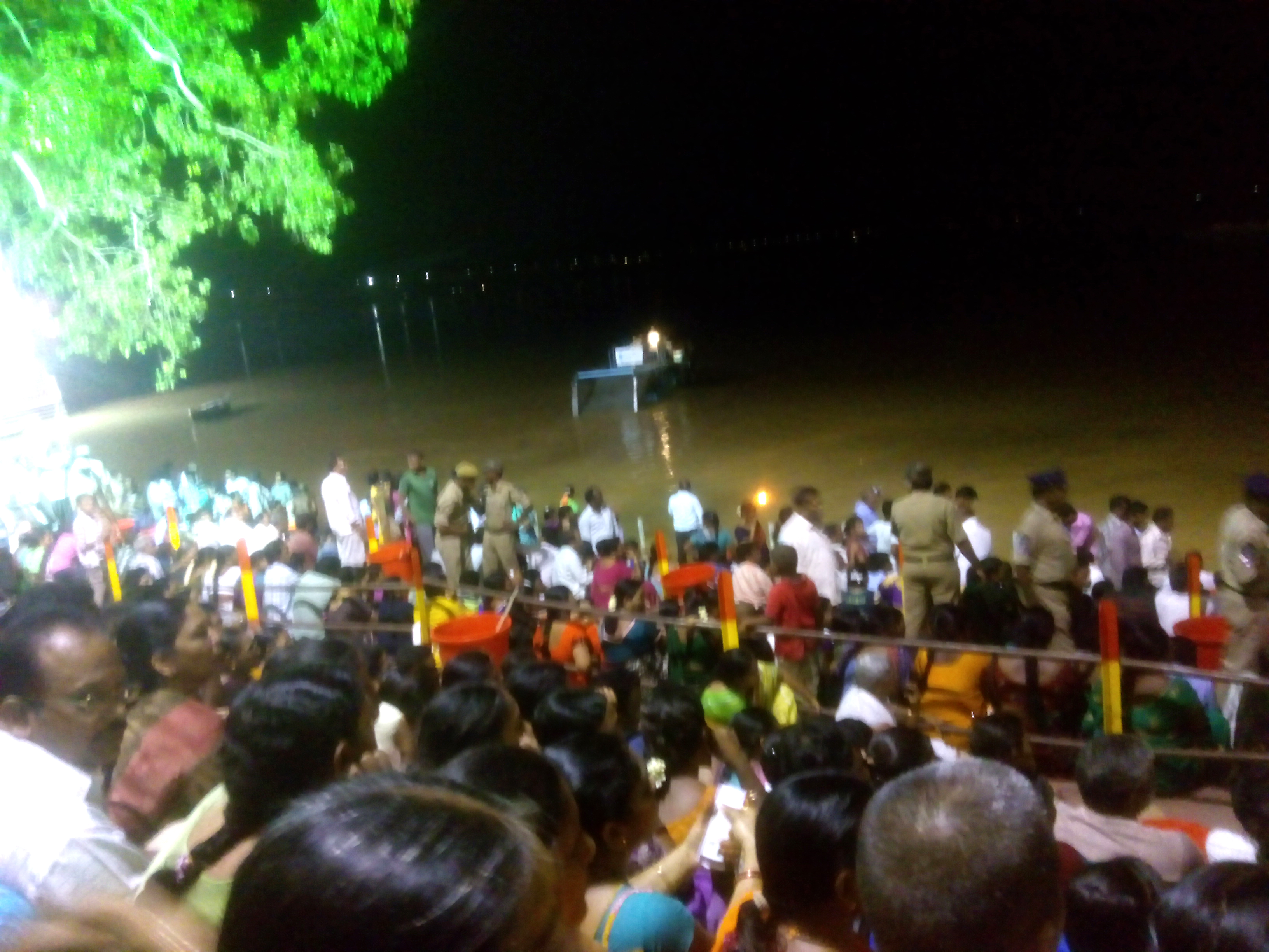 Rajamandry Godavari Pushkaralu 2015 (Godavari Kumbhamela)